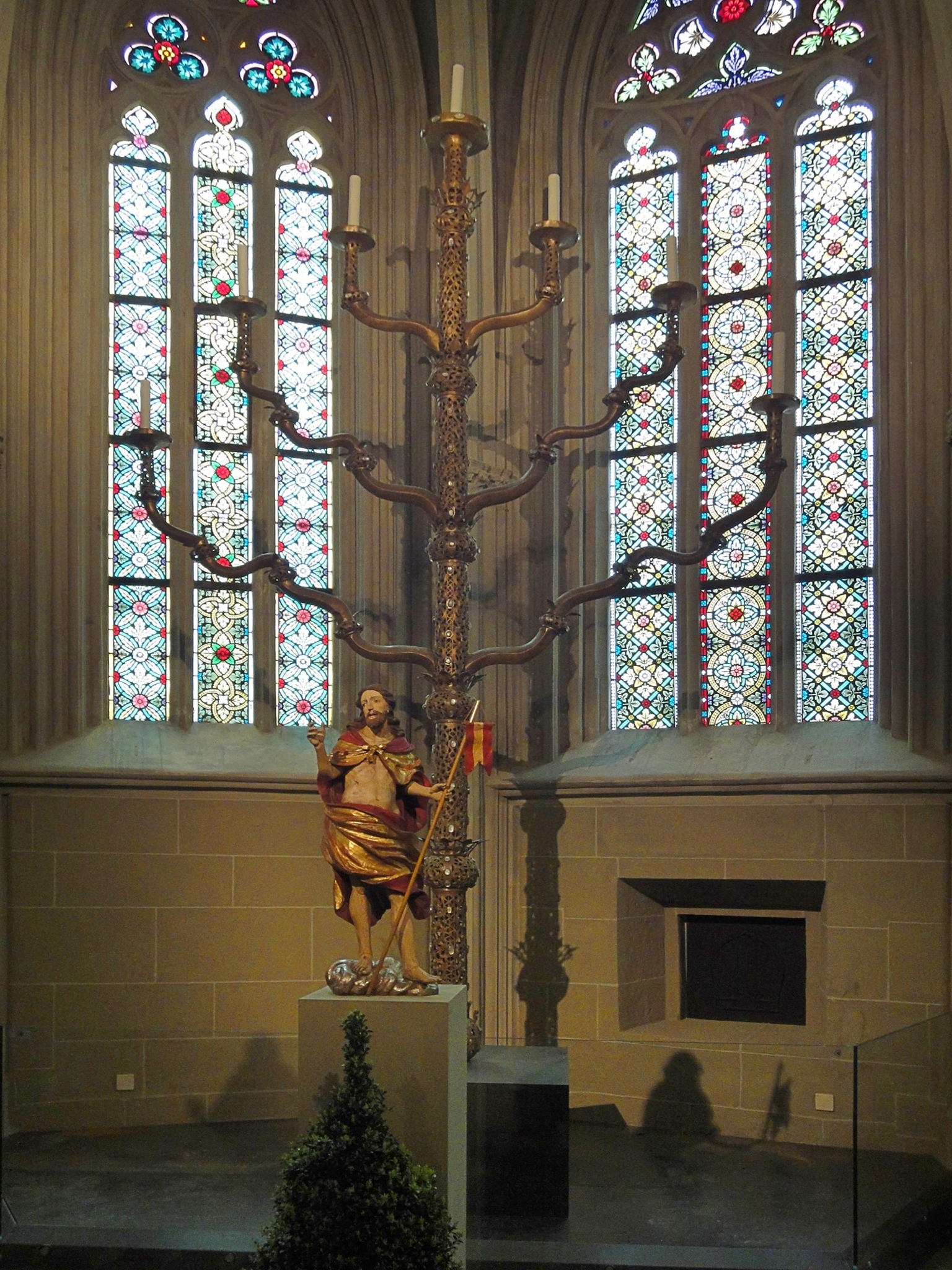 Klosterneuburg Monastery